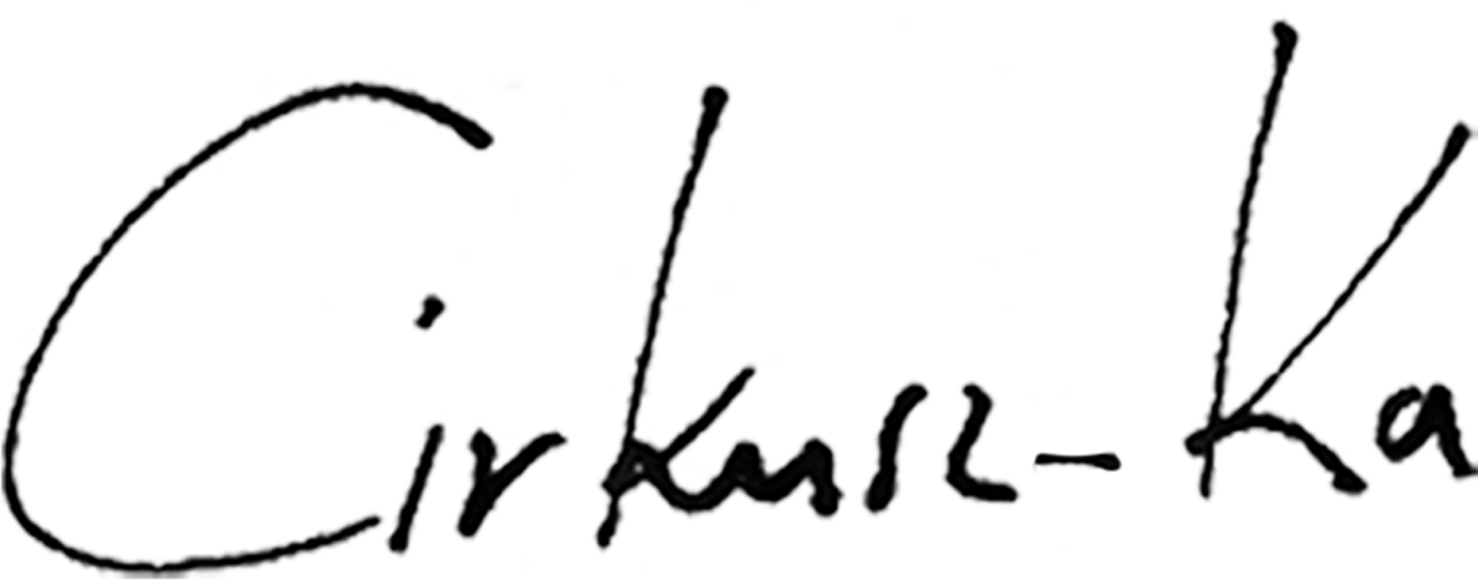 Cirkusz-KA logo